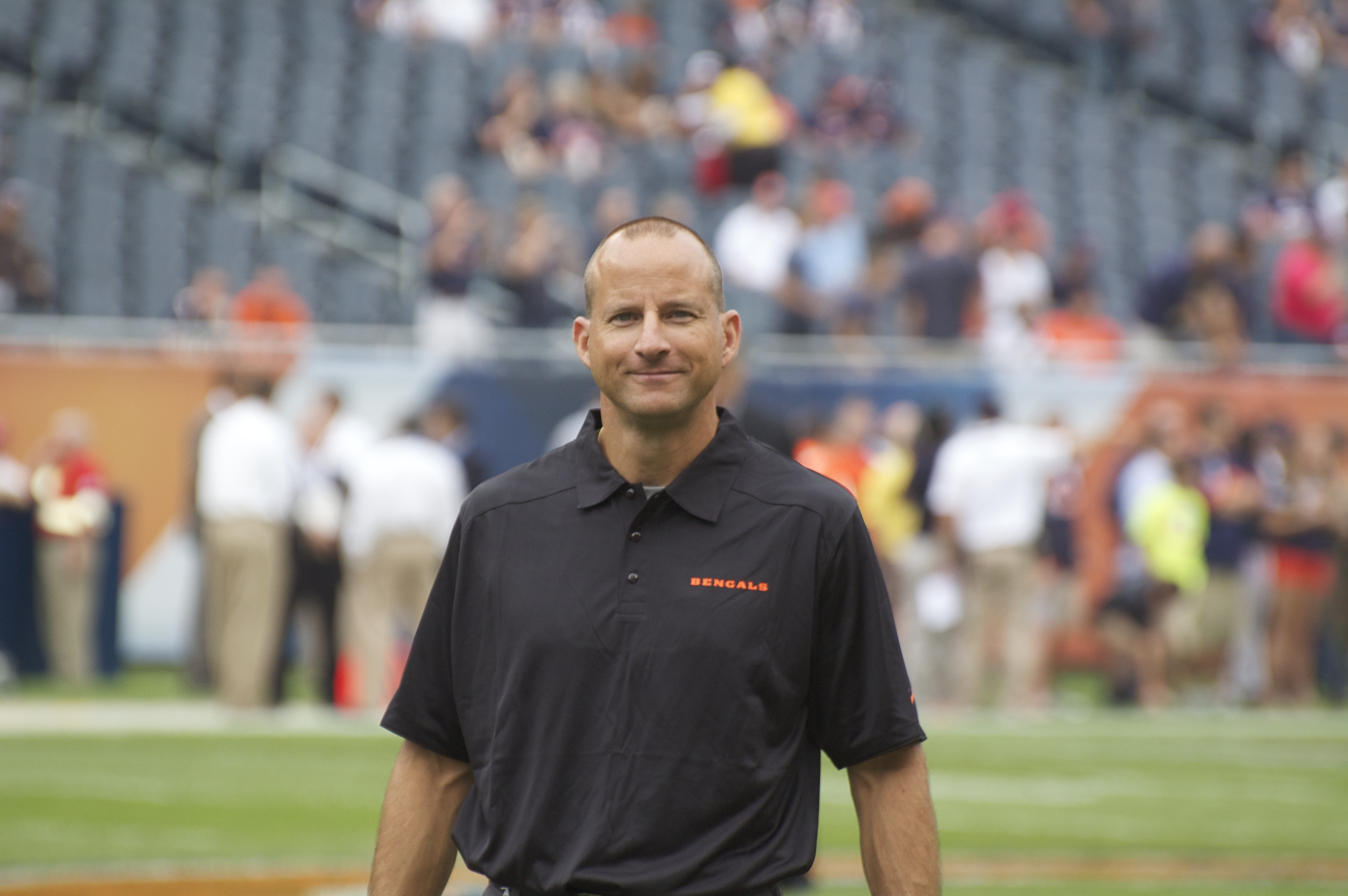 Jeff Friday at Wrigley Field